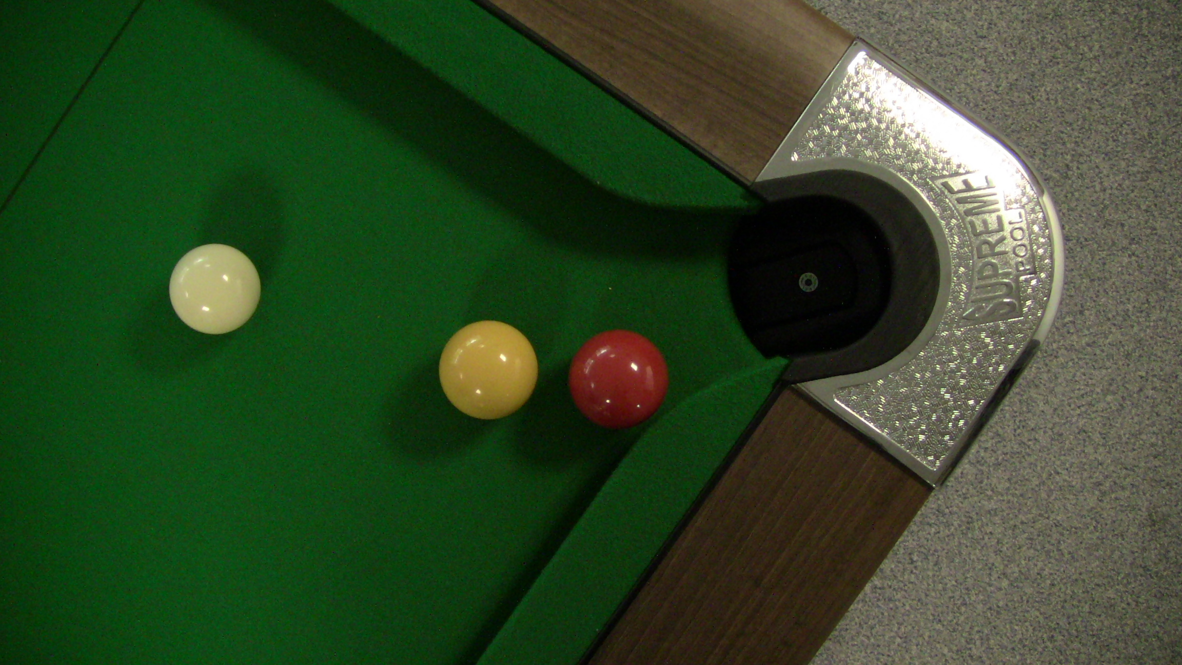 A British standard pool table, showing a cue ball and a red/yello ball close to the (smaller) pocket.